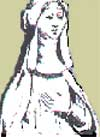 Adelaide of Aquitaine, Queen consort of France